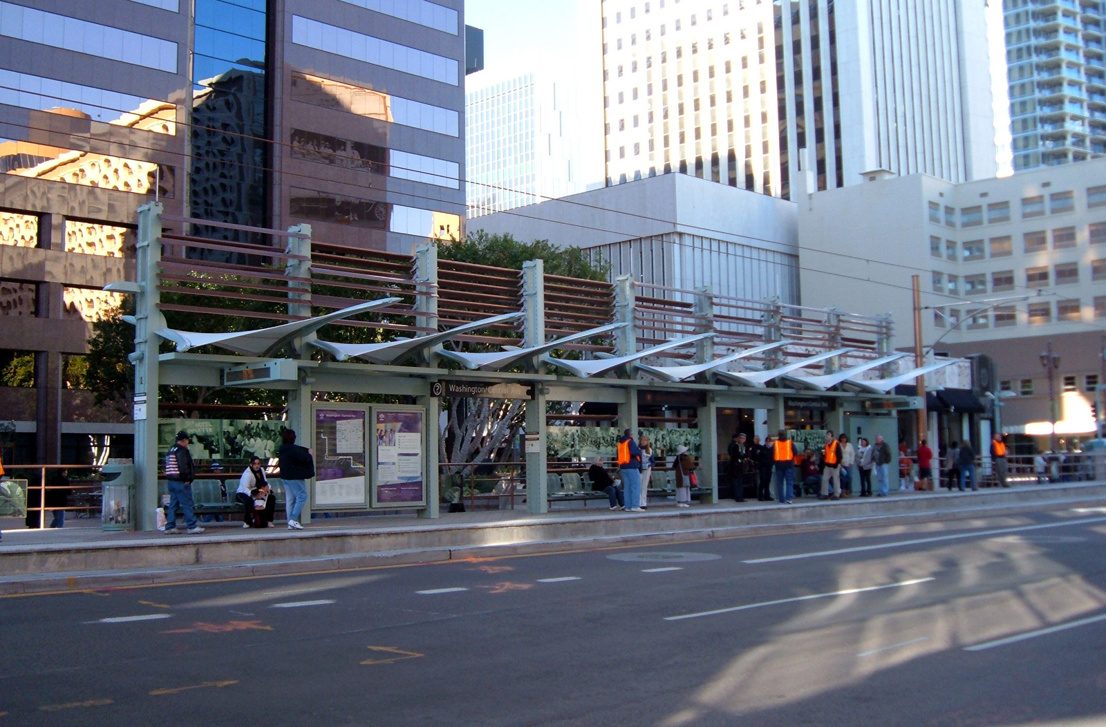 Photograph of the Downtown Phoenix (or Central at Washington) Station of METRO Light Rail that serves the Phoenix area, Arizona, USA. This is the northbound station, located about 800 feet northeast of the southbound station. This photograph was taken during the light rail's grand opening celebration on December 27, 2008.